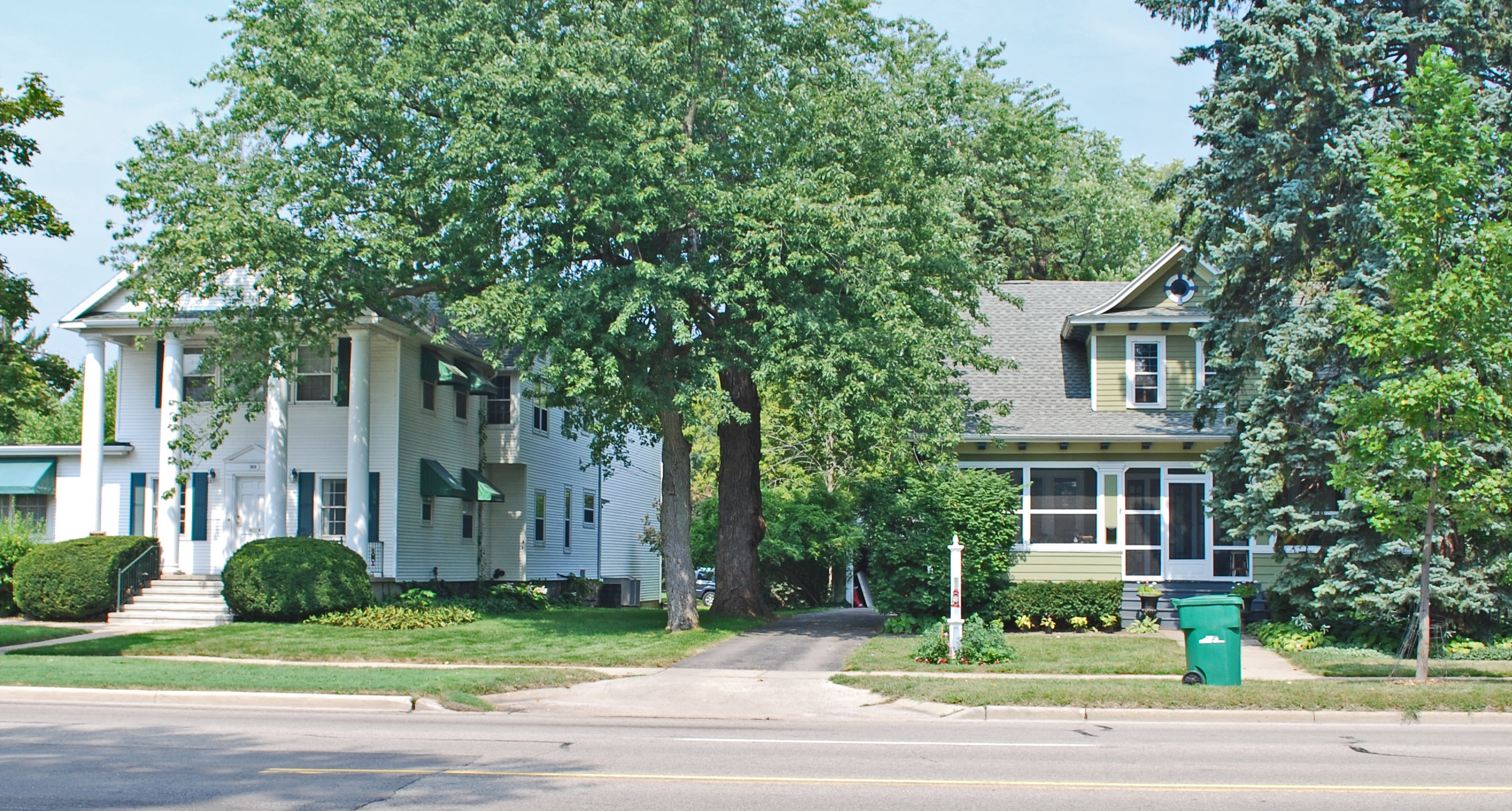 East Michigan Avenue Historic District, 300-304 Michigan Saline MI